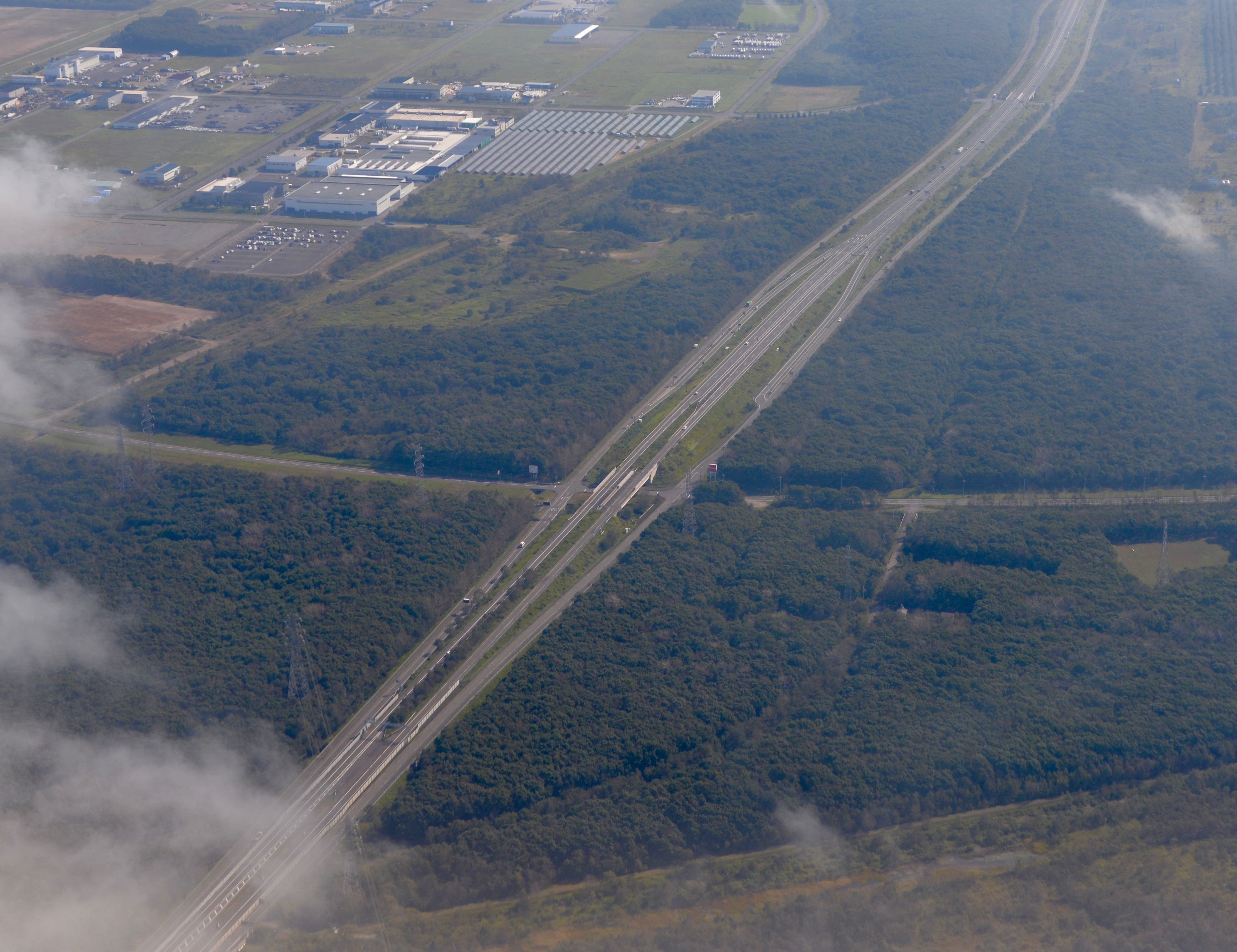 日高自動車道沼ノ端東IC